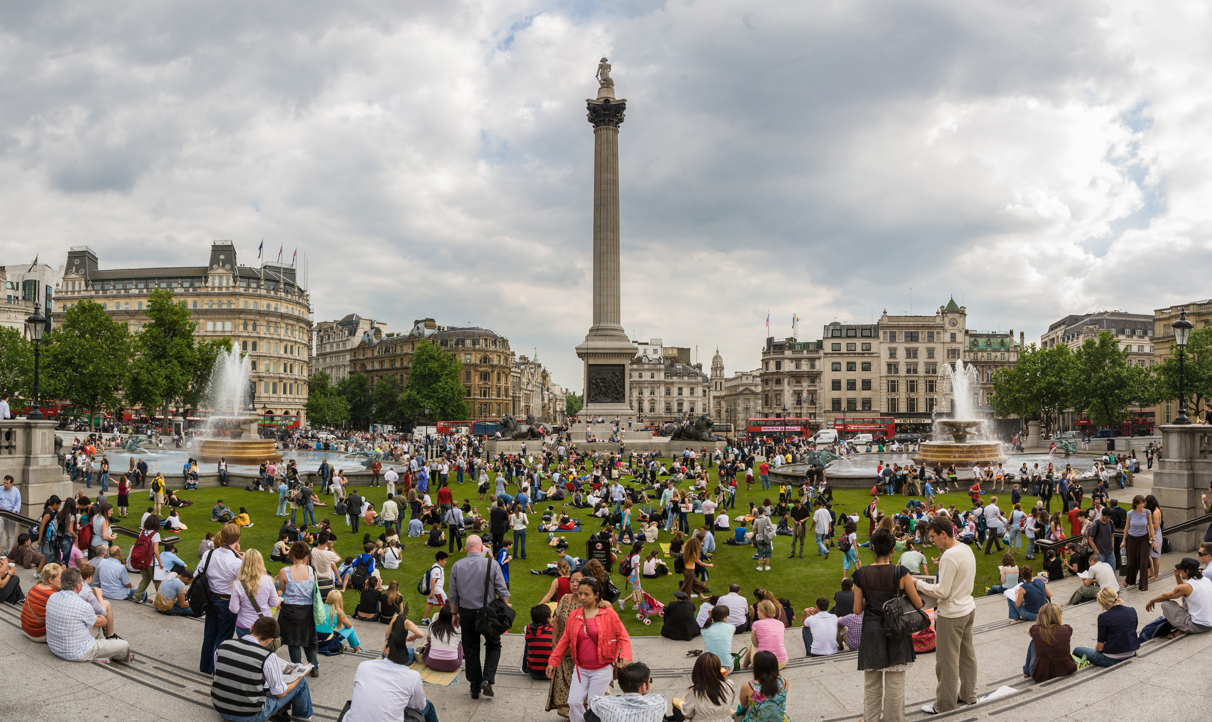 Trafalgar Square temporarily covered in grass.